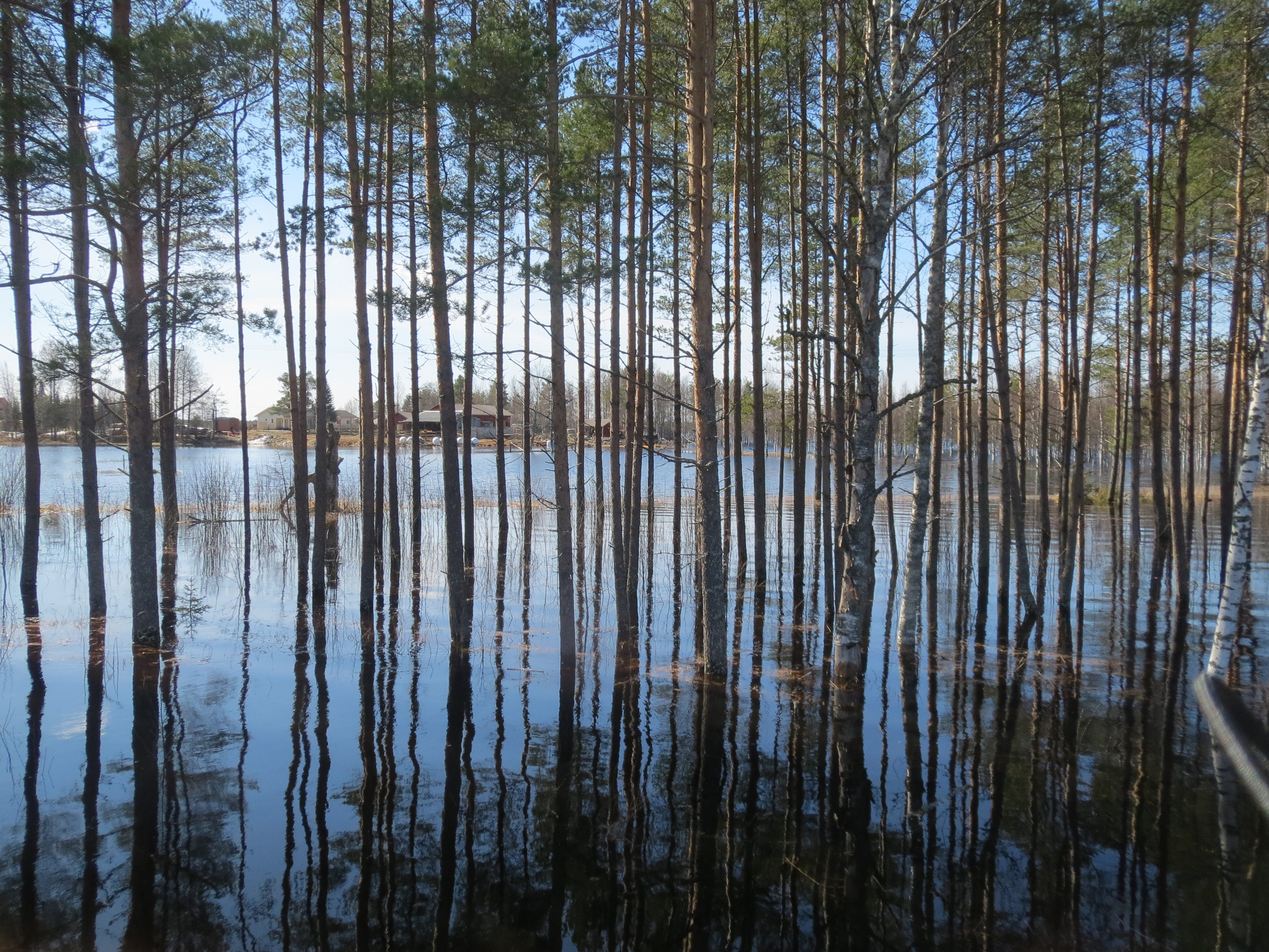 A flood of River Simojoki at village Portimo in Ranua, Finland